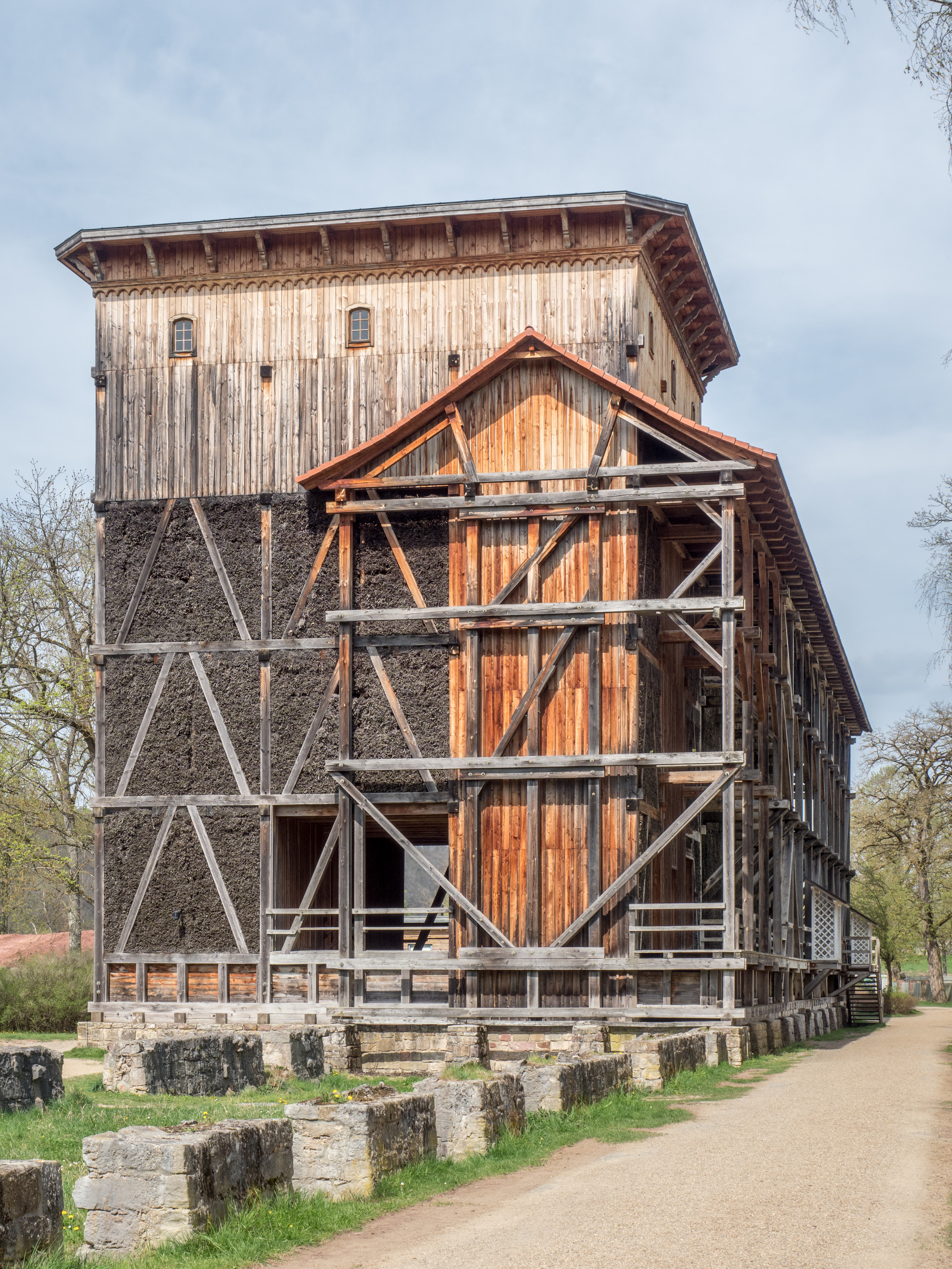 Graduation tower in Bad Kissingen